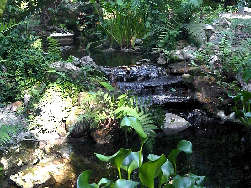 JPEG image of a restored Dupree Gardens waterfall